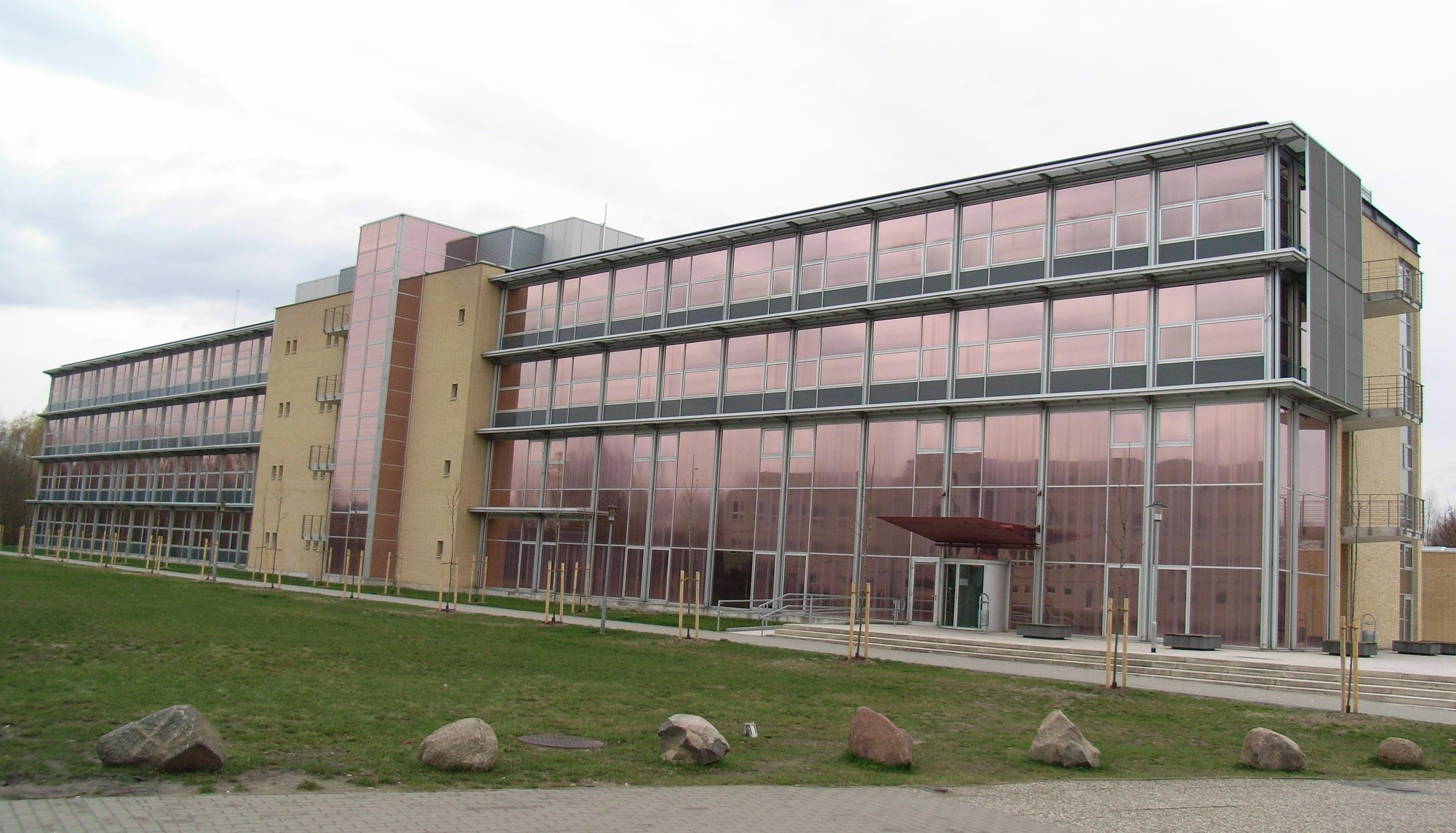 Neubrandenburg University of Applied Sciences, House 2